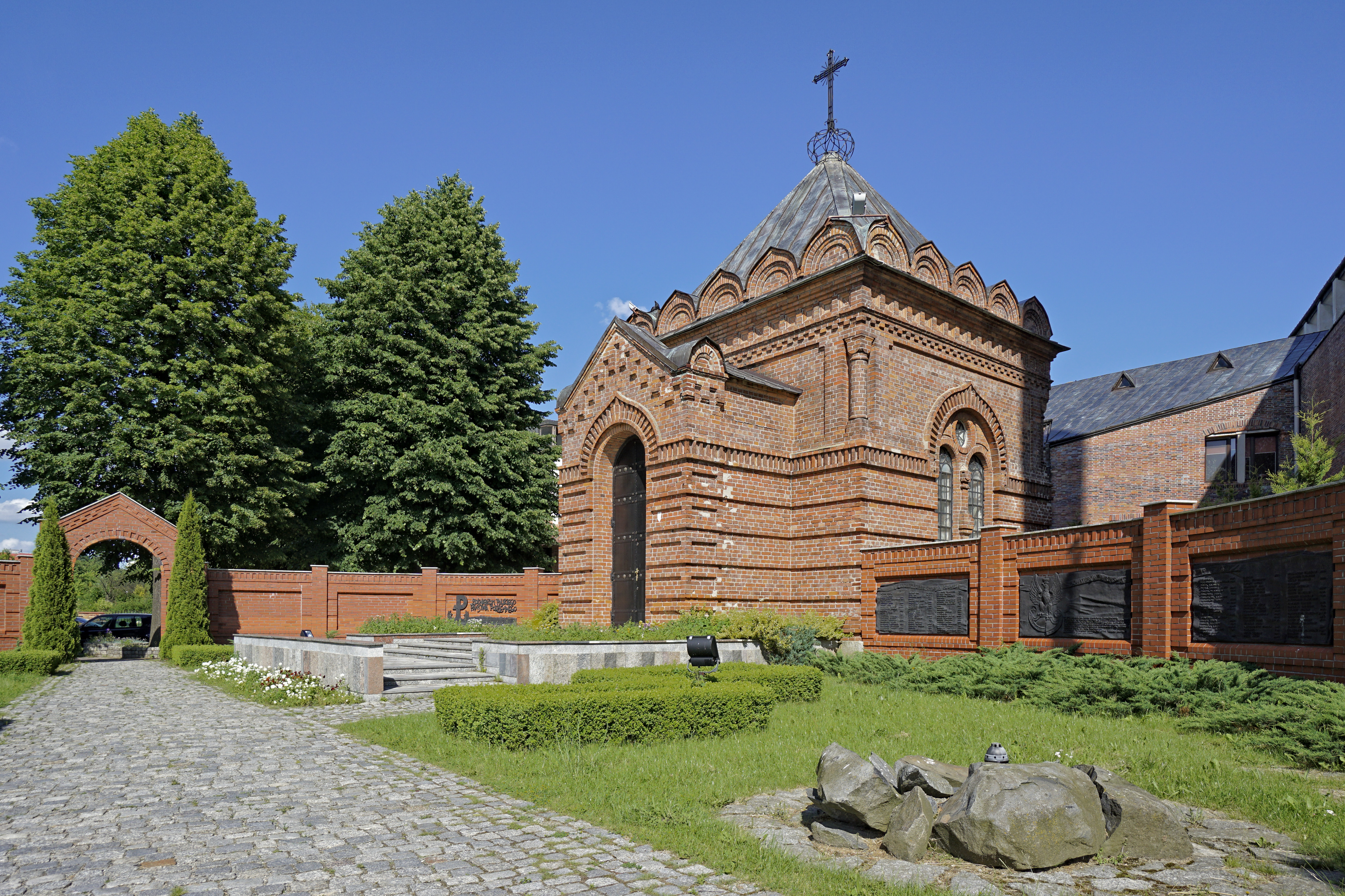 Cemetery chapel on a non-existent military cemetery in Łomża (Poland) 11.1985.